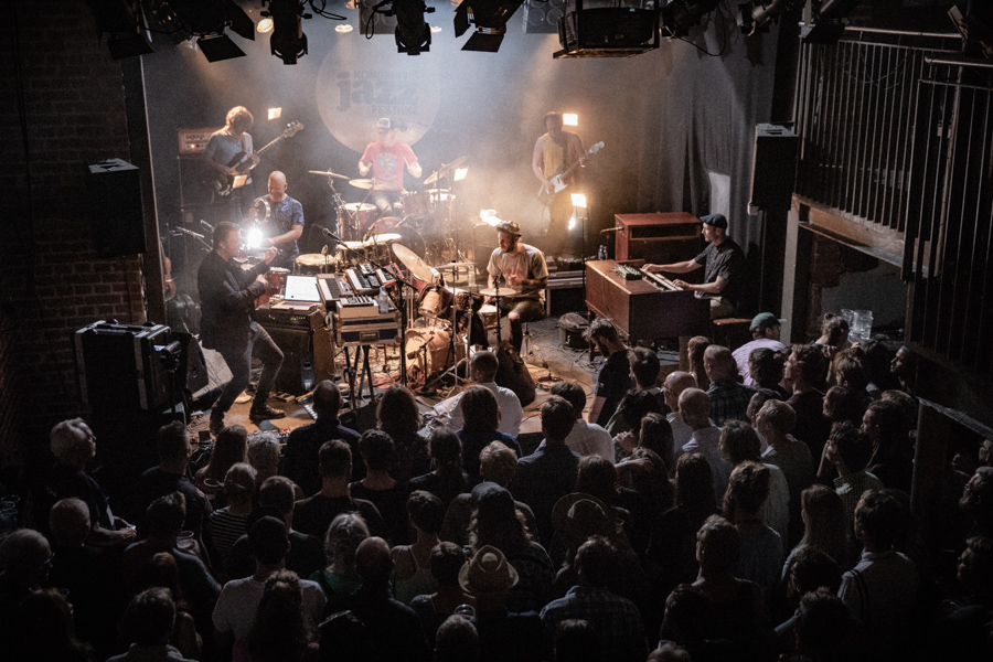 Ola Kvernbergs Steamdome in Energimølla. The concert was part of Kongsberg Jazzfestival and took place on 07. July 2018 in Kongsberg. Lineup:Ola Kvernberg (viola and keyboard)Erik Nylander (drums)Børge Fjordheim (drums)Martin Windstad (percussion)Nikolai Hængsle (bass guitar)Alexander Pettersen (guitar)Daniel Buner Formo (organ)